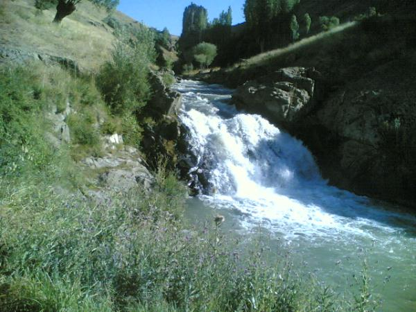 Ürük Köyü Çangal